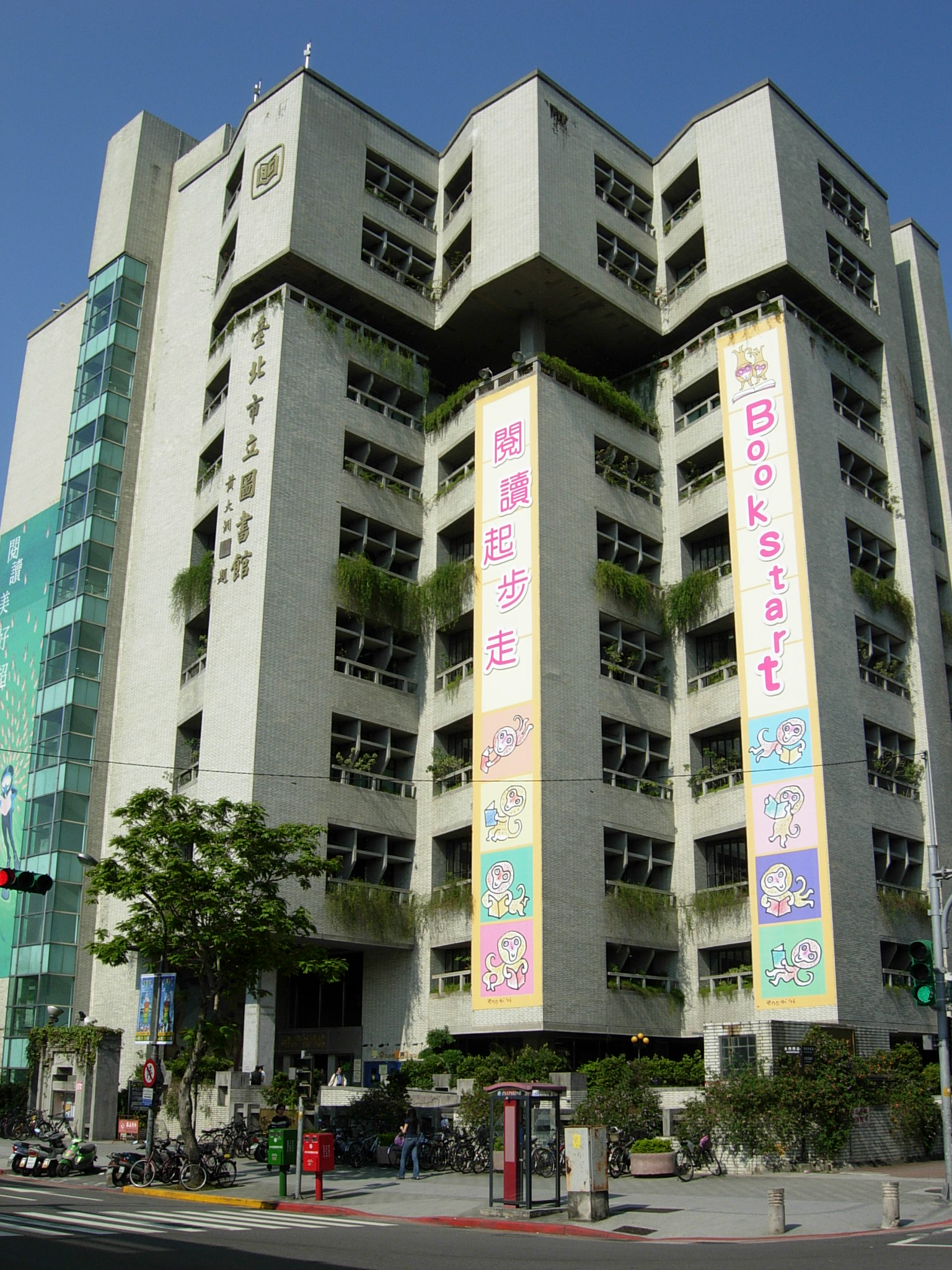 Taipei Public Library（Main Library）